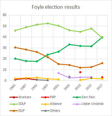 Foyle election results